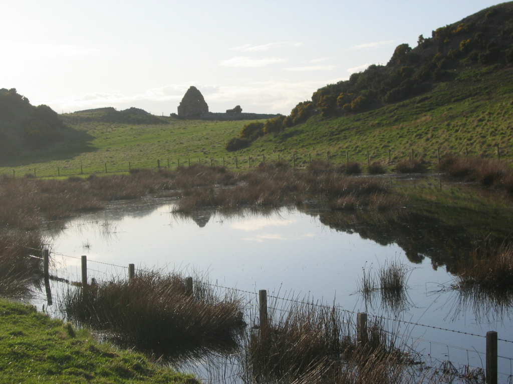 Pease Wood, Scottish Borders